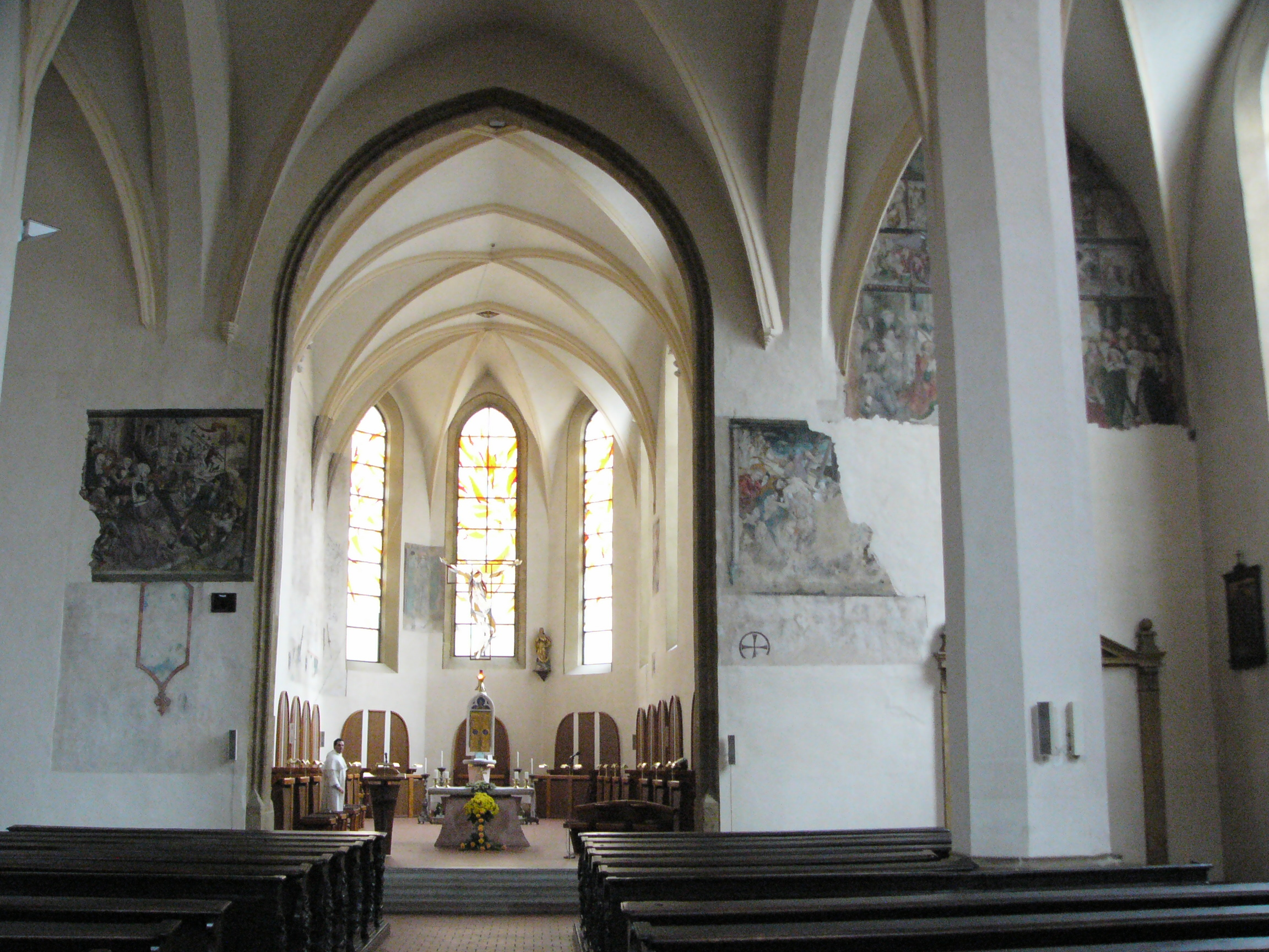 interior of Church of Immaculate Conception of Virgin Mary in Olomouc (in